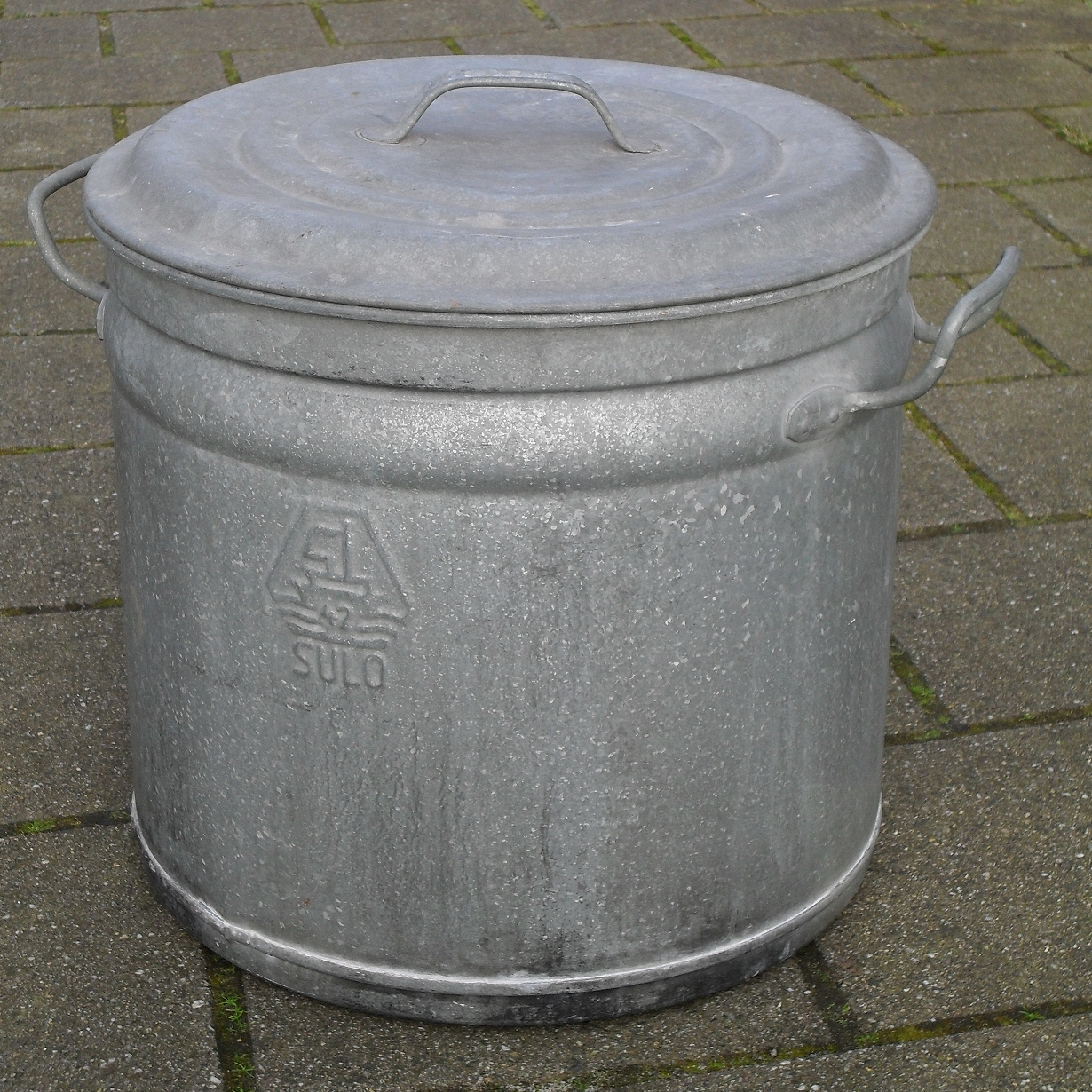 washtub